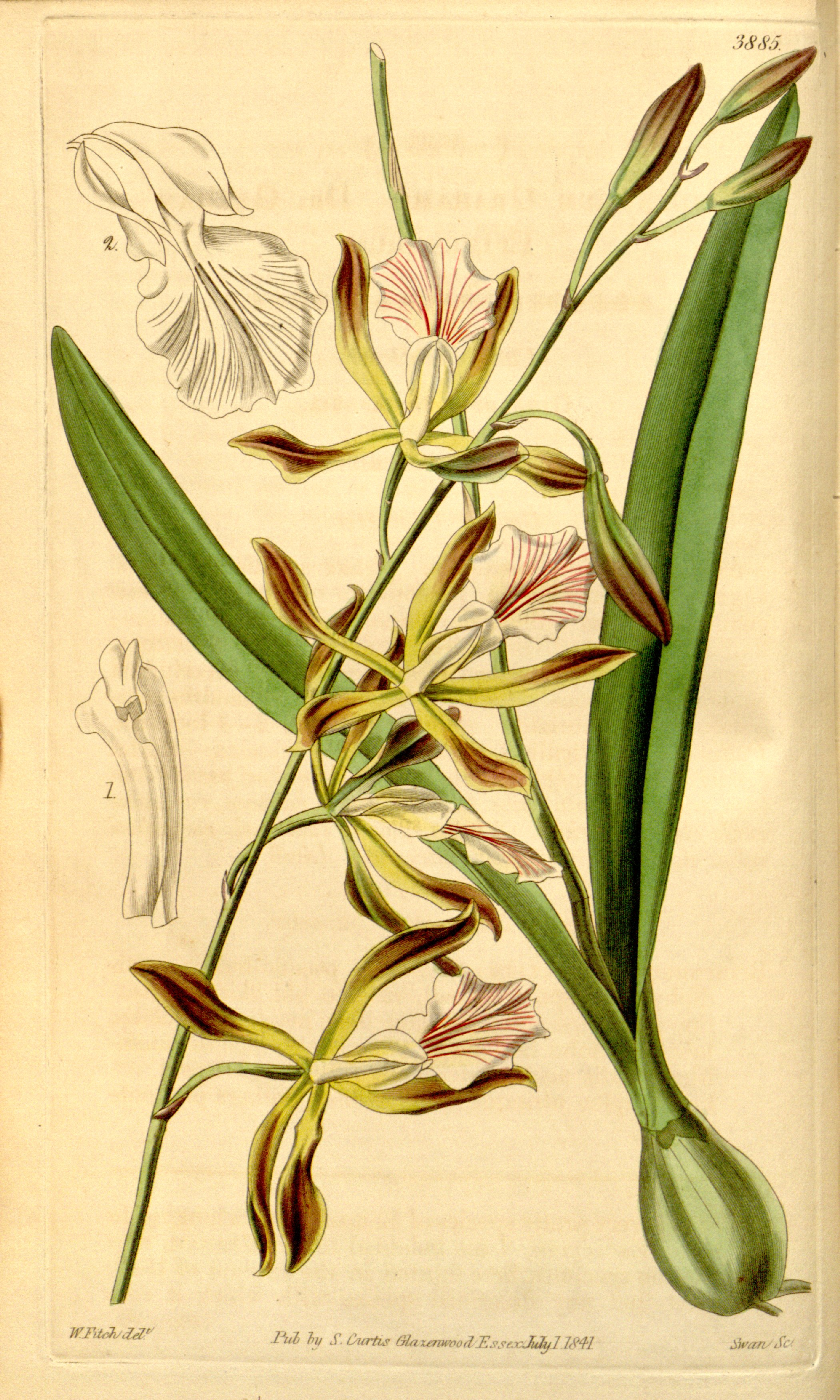 Illustration of Encyclia phoenicea (as syn. Epidendrum grahamii, spelled grahami)